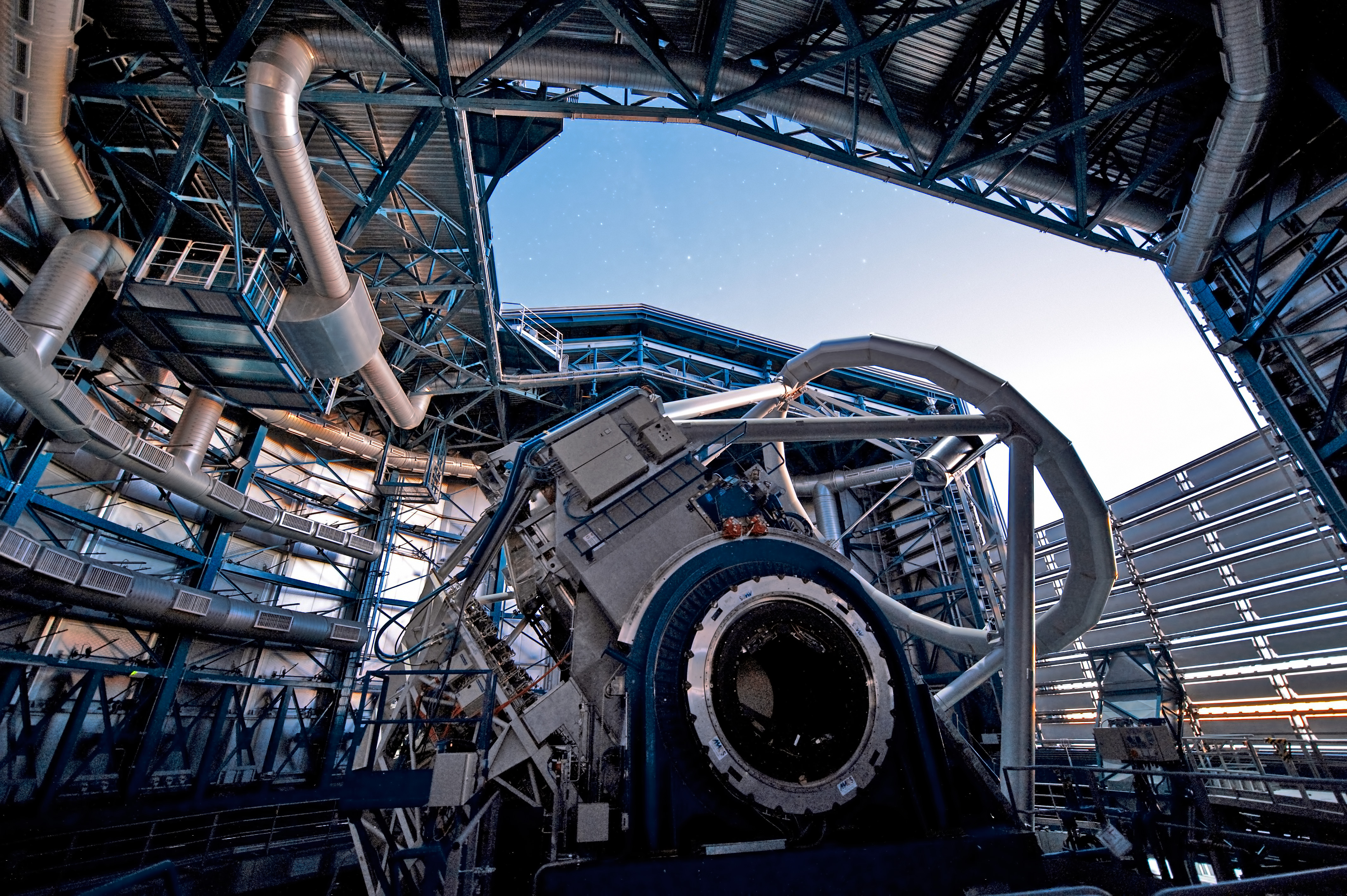 As soon as the Sun sets over the Chilean Atacama Desert, ESO’s Very Large Telescope (VLT) begins catching light from the far reaches of the Universe. The VLT has four 8.2-metre Unit Telescopes such as the one shown in the photograph. Many of the photons — particles of light — that are collected have travelled through space for billions of years before reaching the telescope’s primary mirror. The giant mirror acts like a high-tech “light bucket”, gathering as many photons as possible and sending them to sensitive detectors. Careful analysis of the data from these instruments allows astronomers to unravel the mysteries of the cosmos. The telescopes have a variety of instruments, which allow them to observe in a range of wavelengths from near-ultraviolet to mid-infrared. The VLT also boasts advanced adaptive optics systems, which counteract the blurring effects of the Earth's atmosphere, producing images so sharp that they could almost have been taken in space.